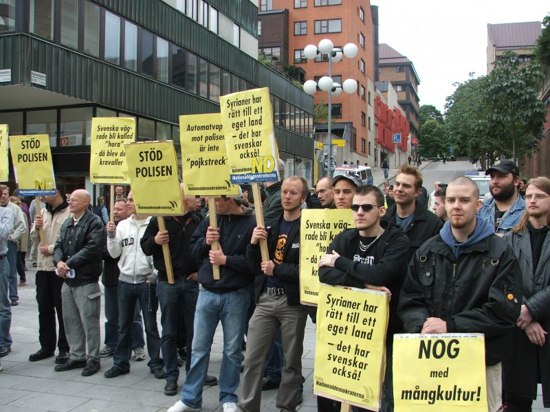 Swedish nationalist party Nationaldemokraterna at a public rally in Södertälje, Sweden.